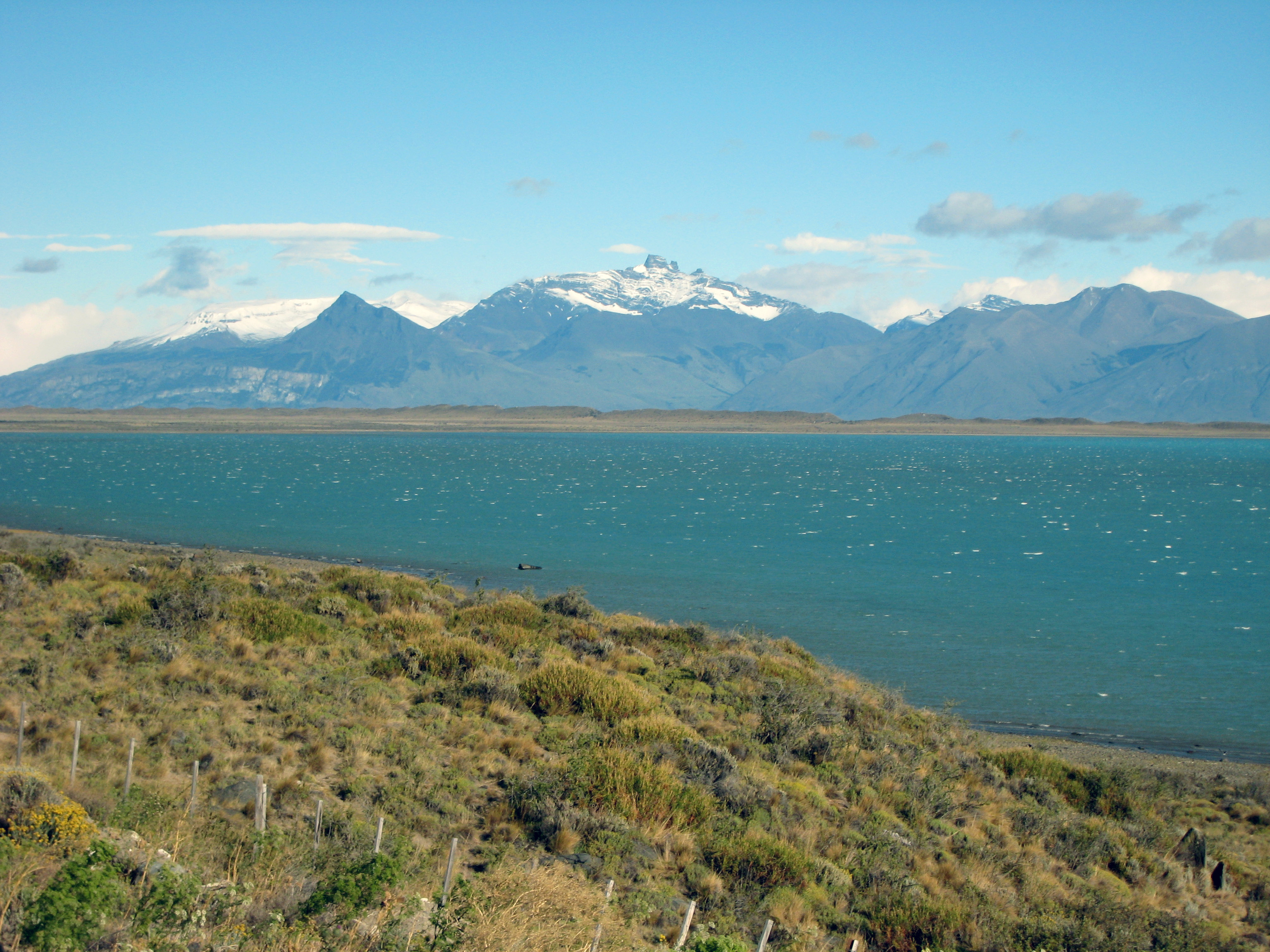 Lago Argentino (from the south side)